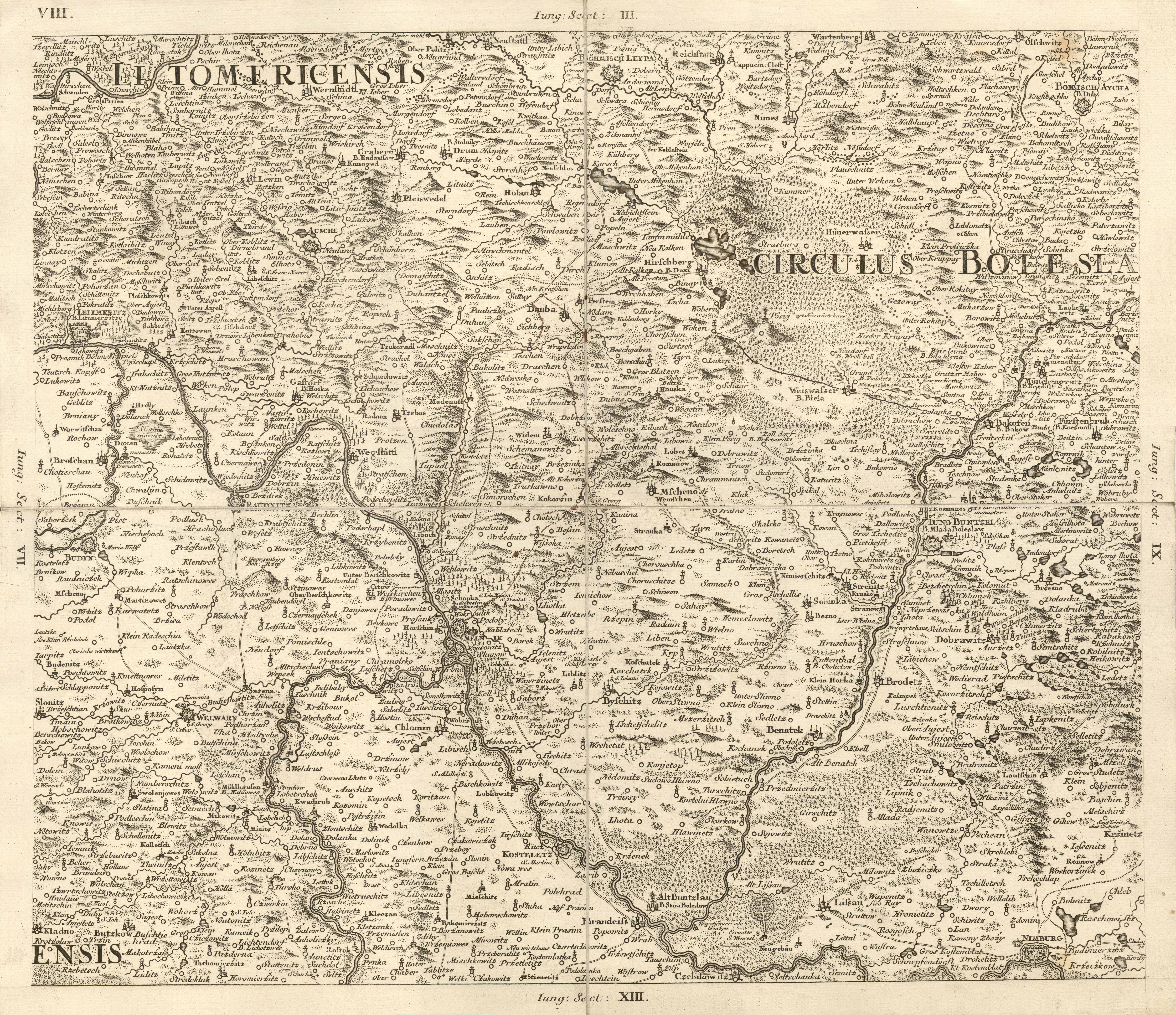 Müller's map of Bohemia.